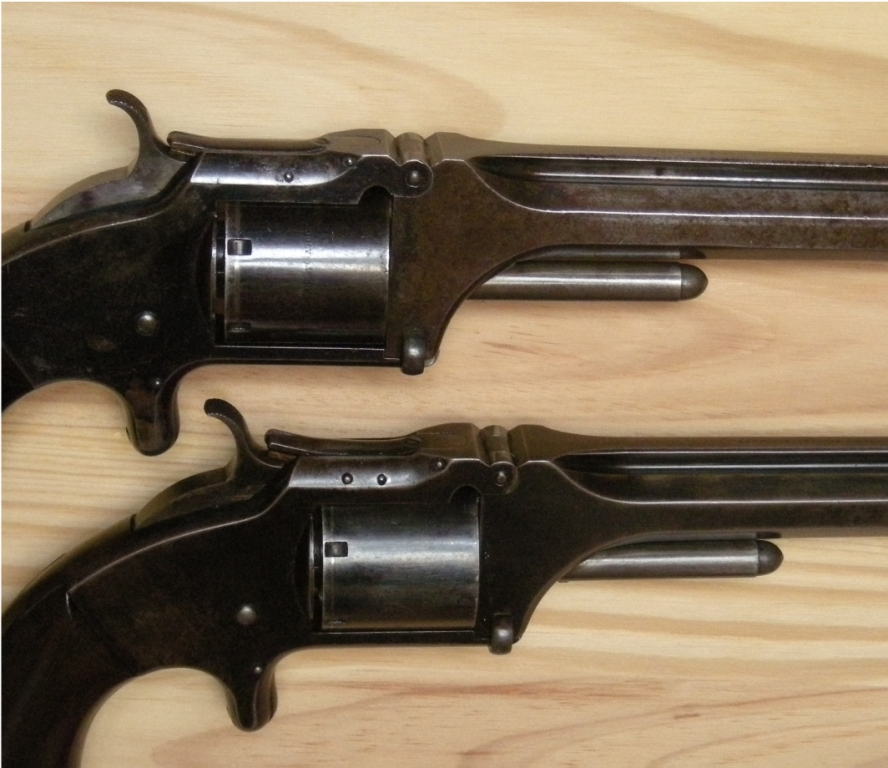 S&W Army 2 Variants